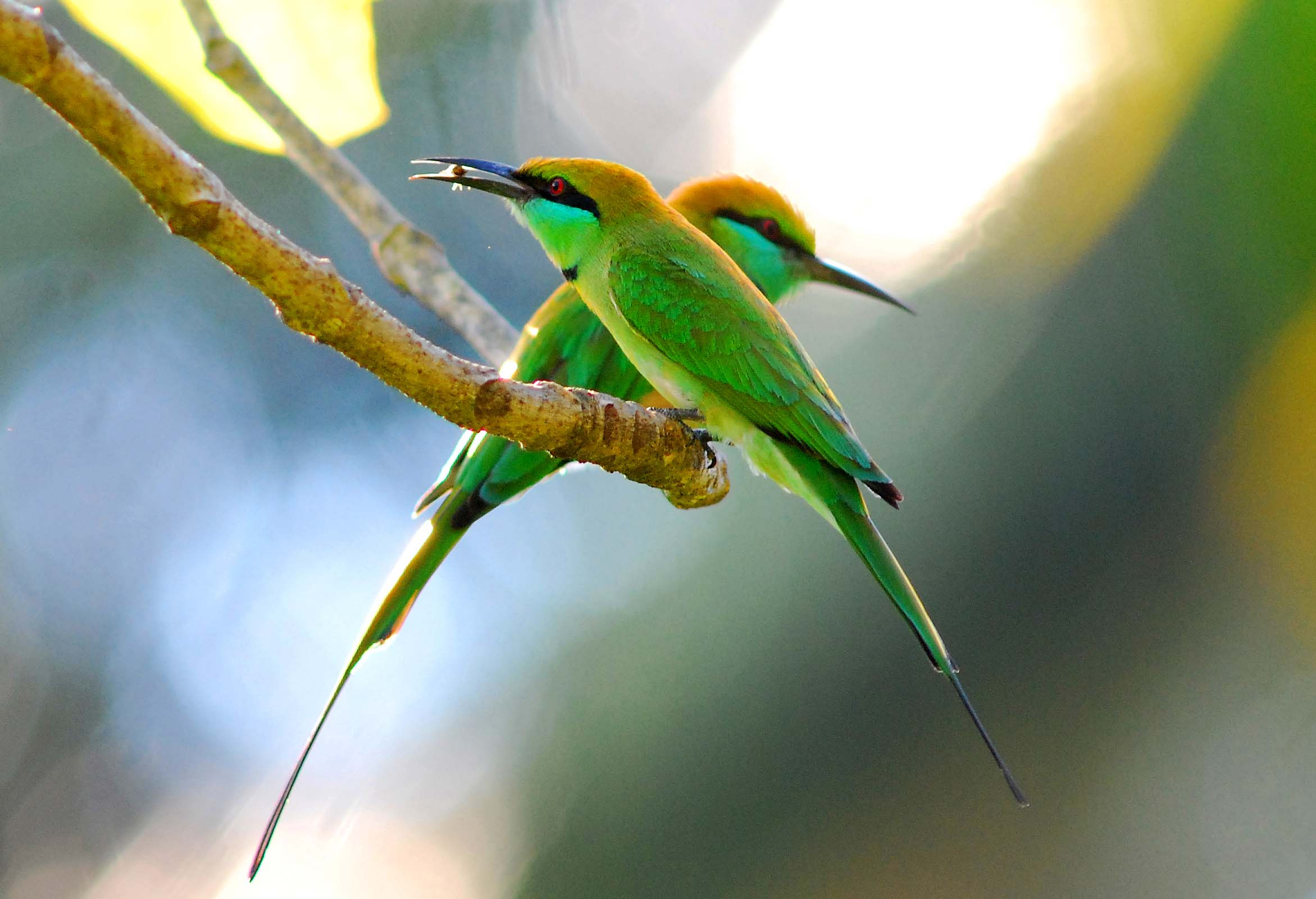 The picture was taken at the backyard of my house in Cochin, India